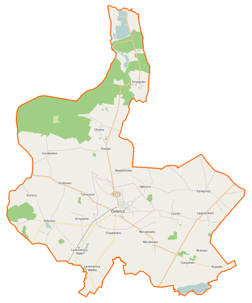 Map of Gmina Gołańcz, Poland This map of Gołańcz (gmina) was created from OpenStreetMap project data, collected by the community. This map may be incomplete, and may contain errors. Don't rely solely on it for navigation.